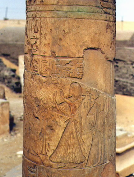 Column in the tomb chapel of Tia and Tia, Saqqara, Egypt, around 1300 BC